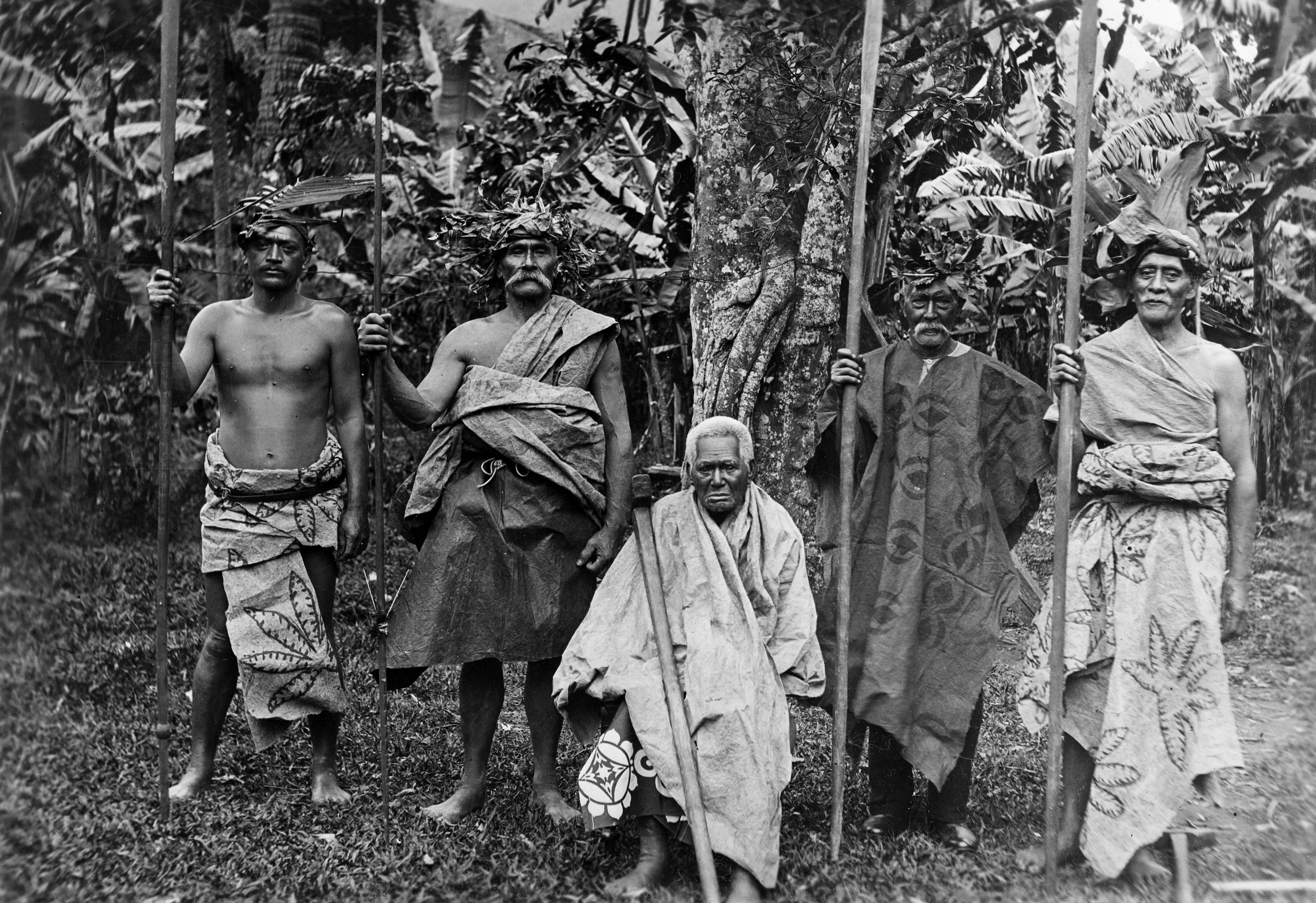 From left to right: non identified, Taruia, Makea Karika Tavake Ariki (Te Au O Tonga – Rarotonga), Te Kakite, non identified.